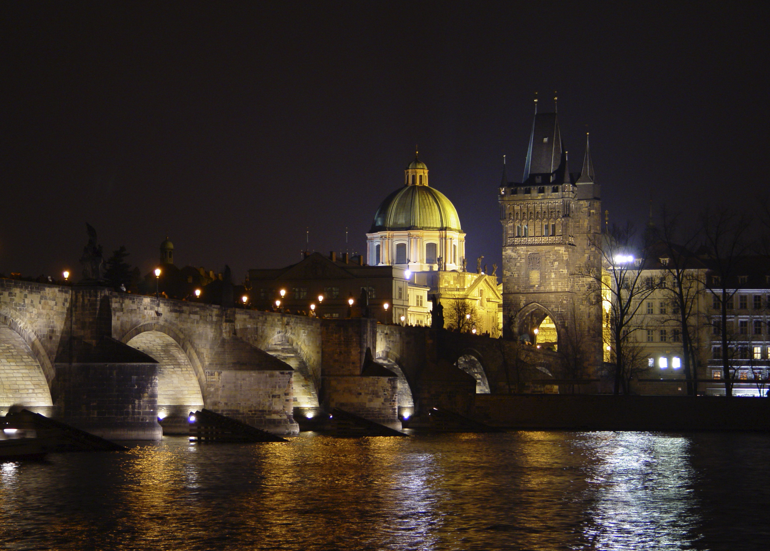 Prague - Charles Bridge at night